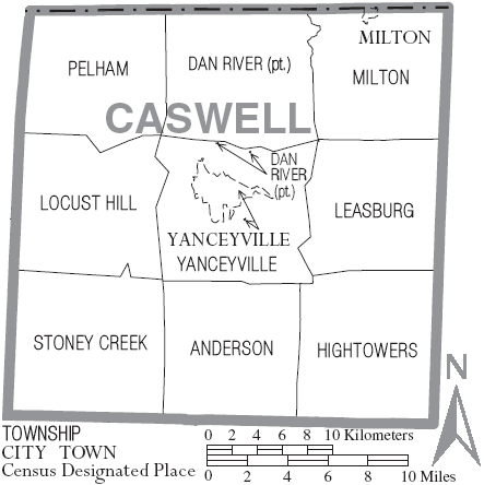 Map of Caswell County, North Carolina, United States with township and municipal boundaries